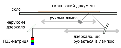 Scanning technology. Captions are in Ukrainian. Derivative of Scanner a plat fonctionnement.png.